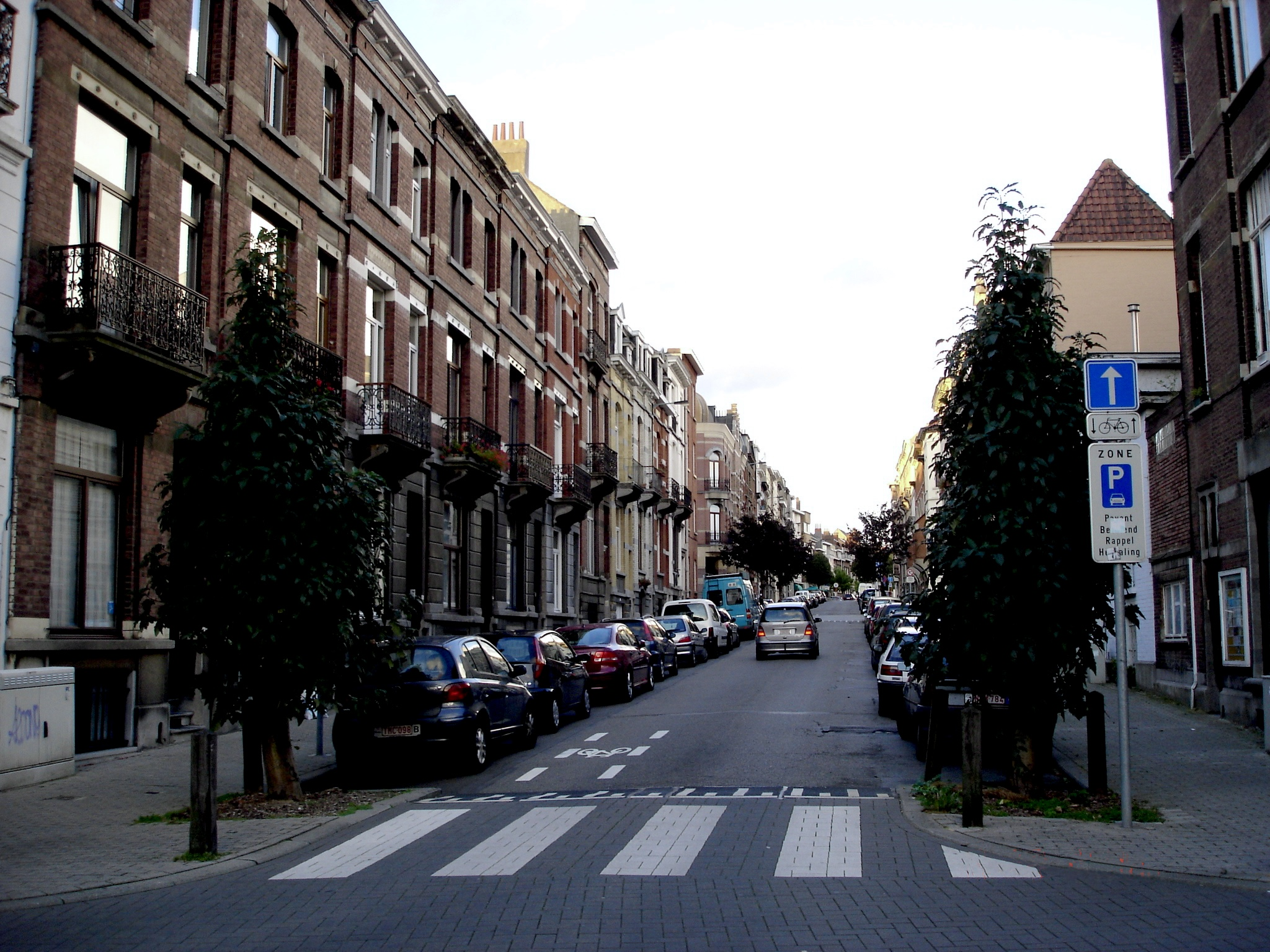 Brusel